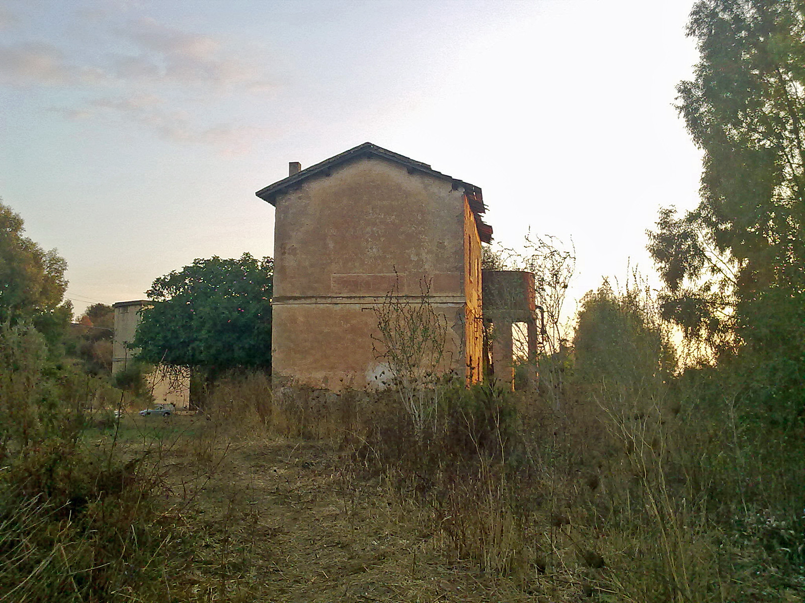 The former Ferrovie Merionali Sarde railway halt of Barbusi (with its water tank for the refueling of the steam locomotives), in the homonymous hamlet of the city of Carbonia, Sardinia, Italy. The halt served the railway San Giovanni Suergiu-Iglesias, closed in 1974